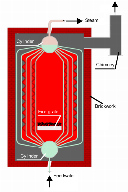 This illustration is of pressure fire boiler (JD) The top "cylinder" is referred to as the steam drum, and the botom "cylinder" is referred to as the mud drum.